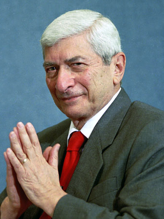 SI Neg. 2001-12496.12a. Date: 10/9/2001...Marvin Kalb interviews CBS News Managing Editor and Anchor Dan Rather during the first of a seven-part "Kalb Report" series entitled "Journalism at the Crossroads," taped at the National Press Club. ..Credit: Jim Wallace (Smithsonian Institution)